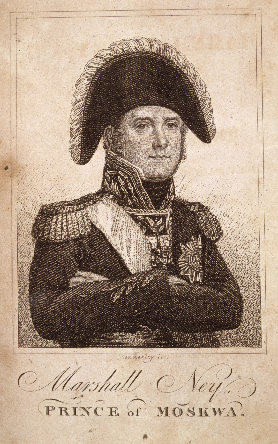 Marshal Ney Michel Ney ( 1769 - 1815 ), Prince of Moskwa. French Napoleonic General and Marshal. Known as the Bravest of the Brave. After fighting for Napoleon at the Battle of Waterloo, he was condemned for high treason and shot by firing squad.